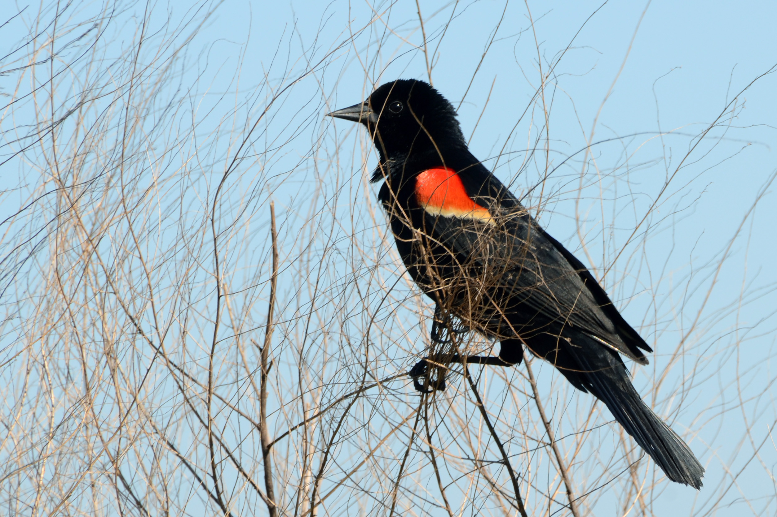 Icteridae: Agelaius phoeniceus Paynes Prairie State Preserve, FL